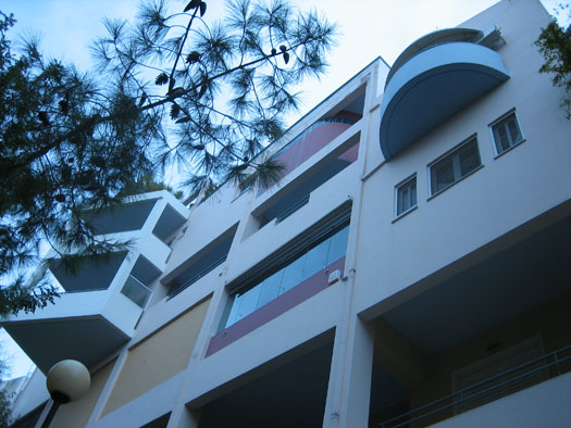 Exterior view of a house in Athens, Greece